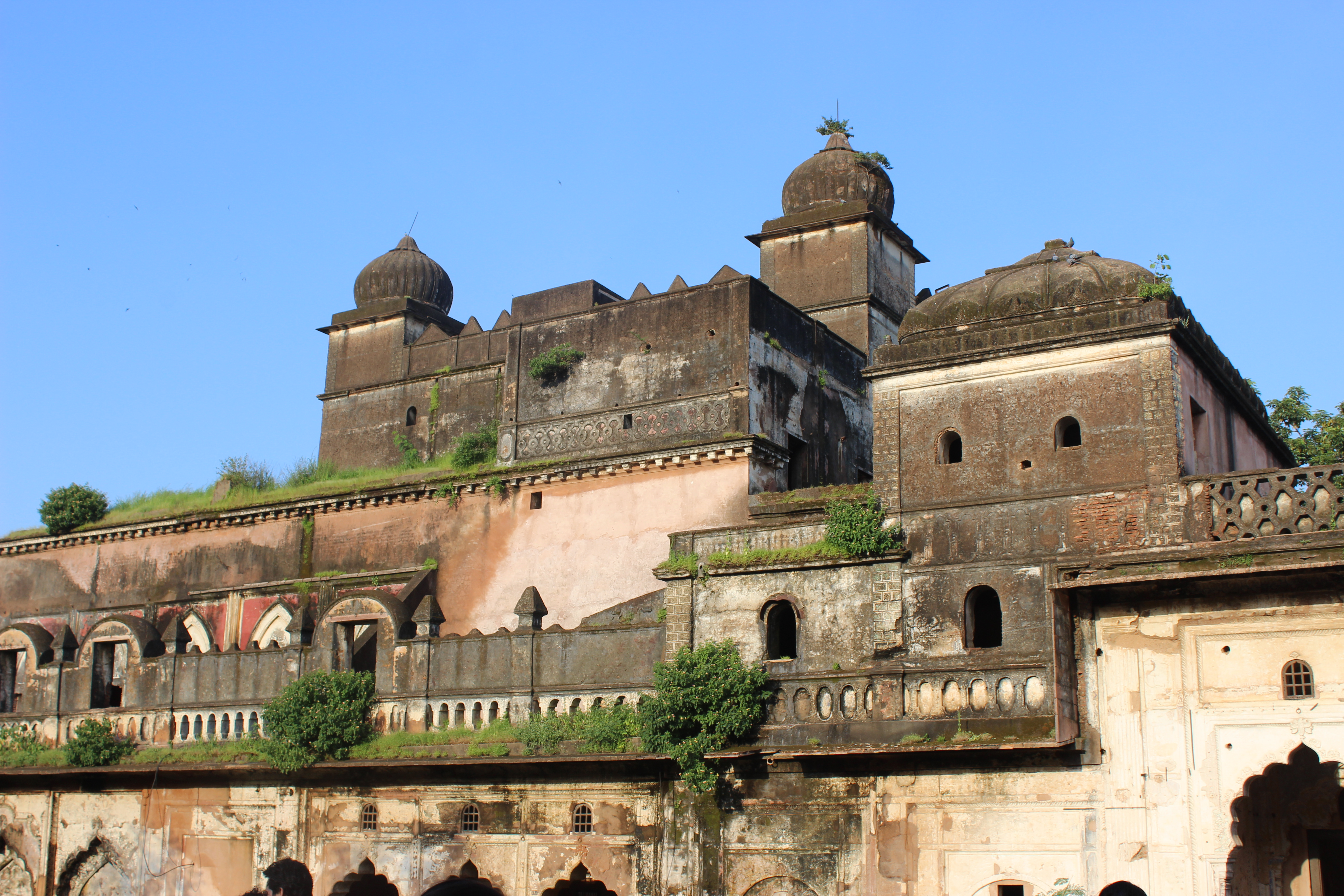 Taj Mahal (Palace) backside, Bhopal